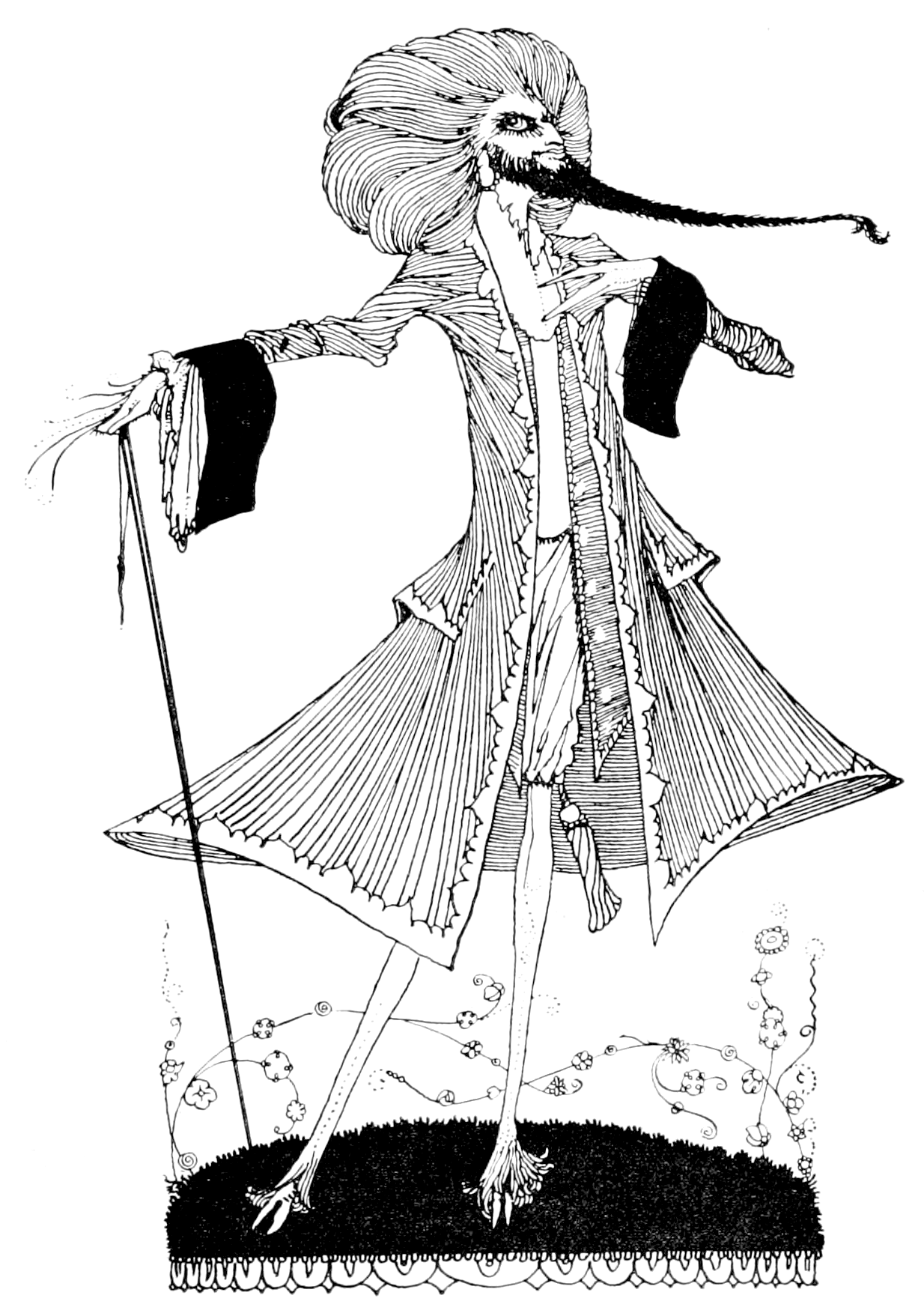 Illustration in The fairy tales of Charles Perrault Perrault, Charles, 1628-1703; Clarke, Harry, 1889-1931, illustrator. London: Harrap (1922)